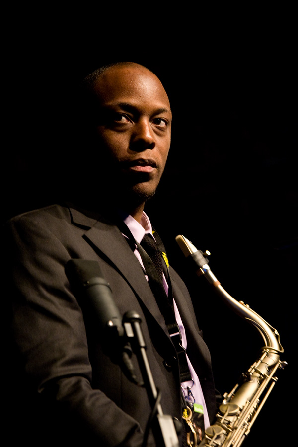 Marcus Strickland, moers festival 2011